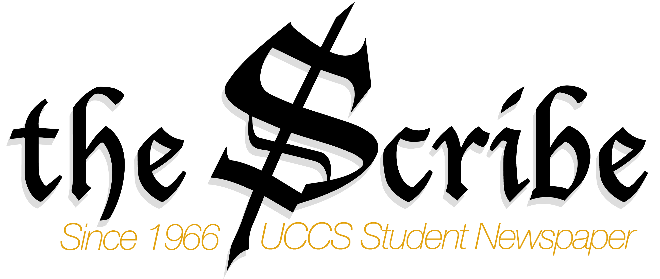 This is the newly designed logo for the scribe as of 2016.